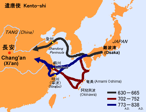 Possible route of Kento-shi vessels (from Japan to Tang-China)